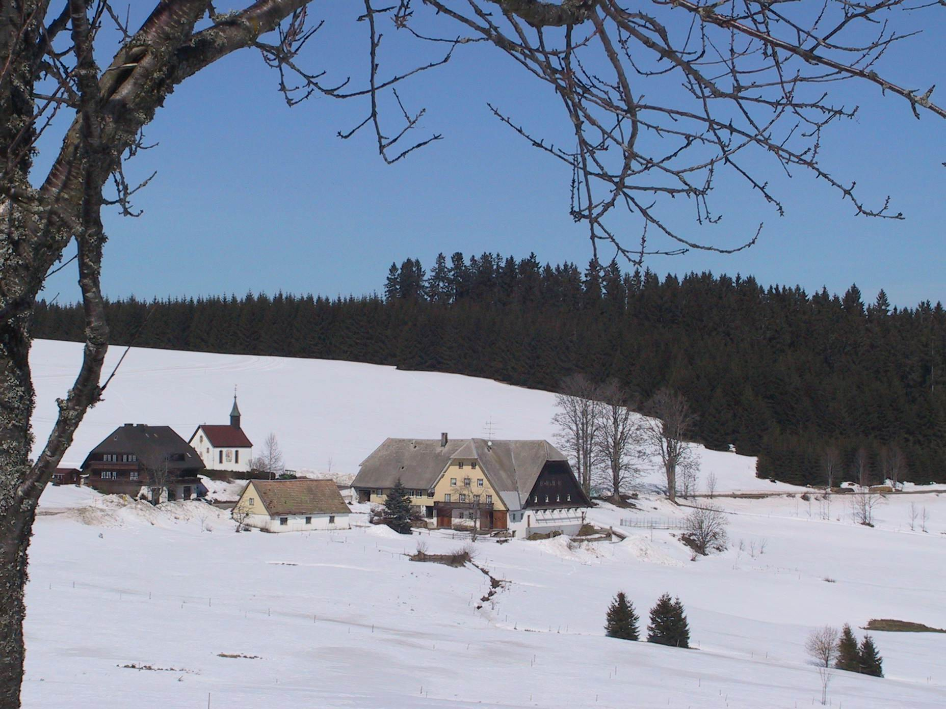 Panoramic view of the Ebenemooshof in Schwärzenbach near the city of Titisee-Neustadt, Black Forest, Germany